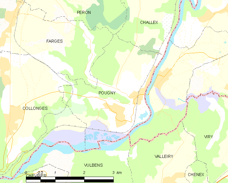 Map of French commune: Pougny Map commune FR insee code 01308.png